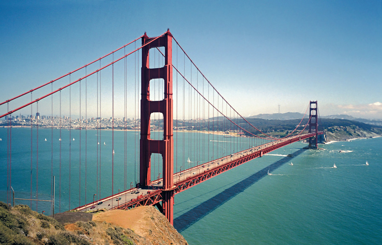 like many other pictures of the golden gategolden gate